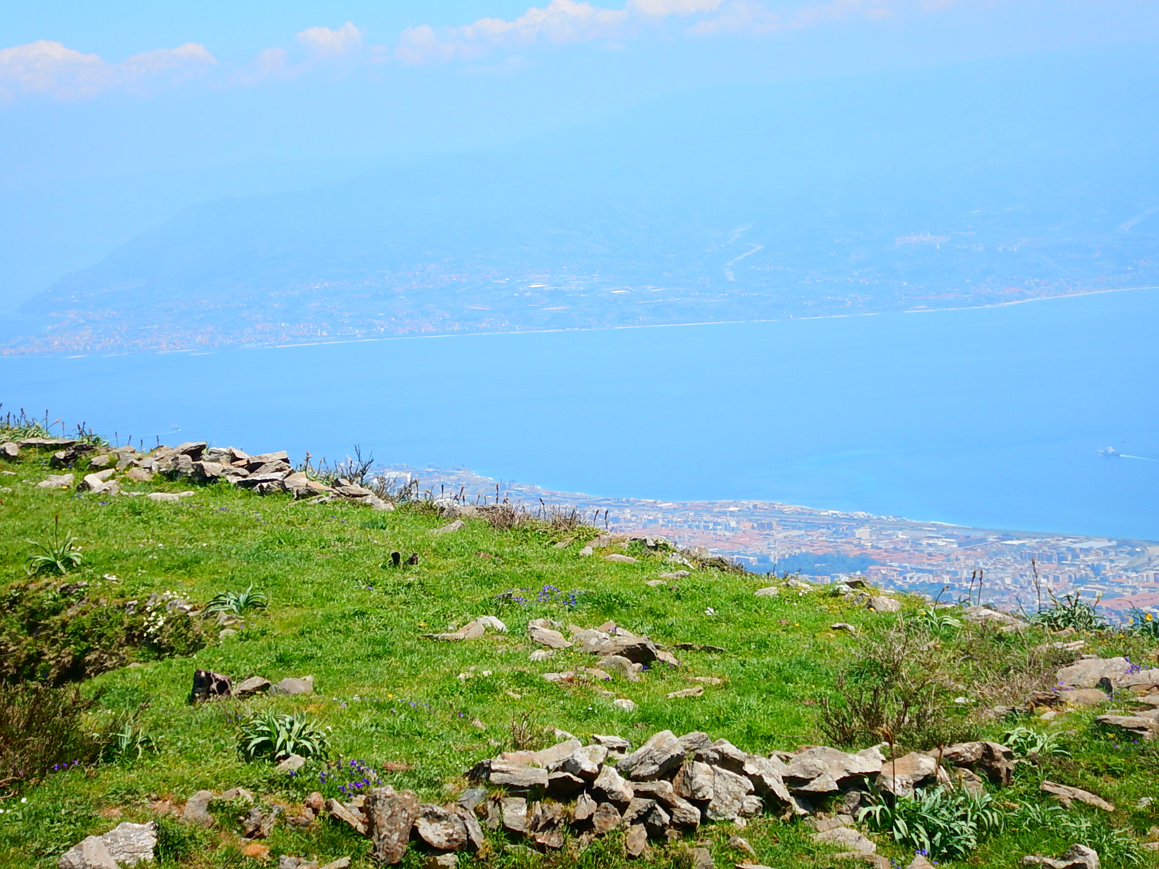 mount dinnammare,Messina ,Peloritani, sicily